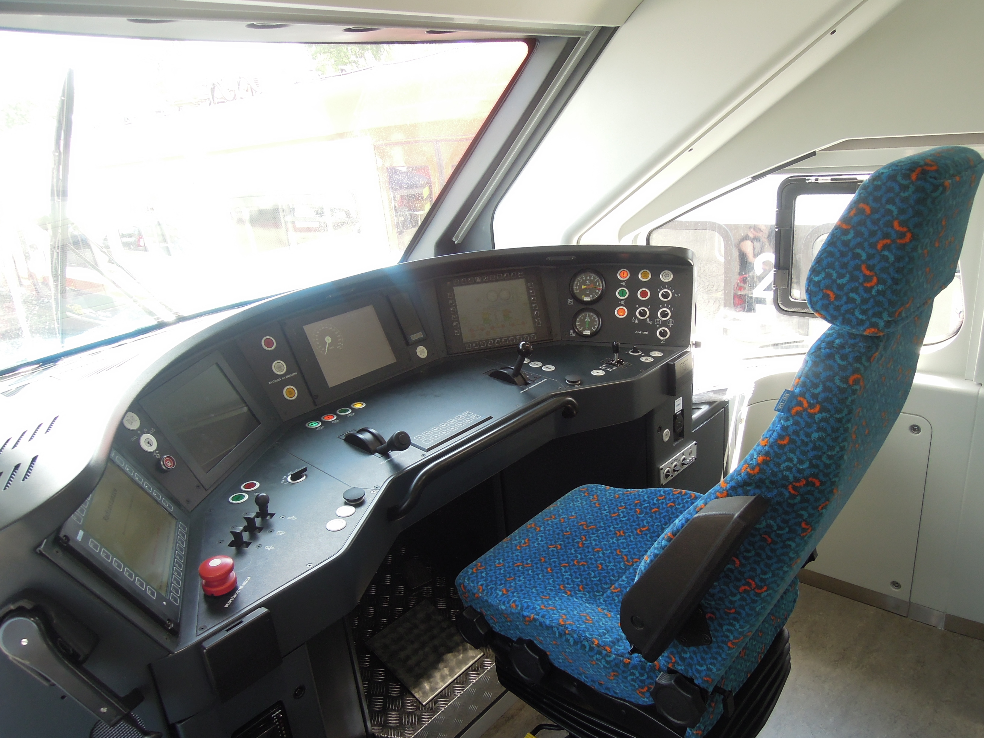 Diesel multiple unit class 844 RegioShark of České dráhy at the Czech Raildays 2013 trade fair in Ostrava, Czech Republic